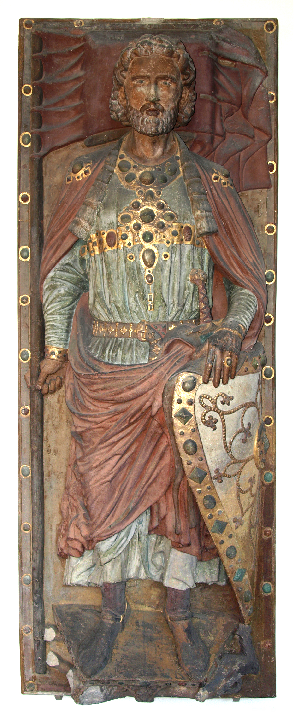 Tomb cover slab of count Wiprecht of Groitzsch (died 1124). Saxony, second quarter of the 13th century. Replica of the sandstone orignal from the St. Laurence's Church in Pegau. The colorful appearance of the cast reproduces the polychroming of the original tomb in 1869, which was stripped off again in 1934/35. Germanisches Nationalmuseum.